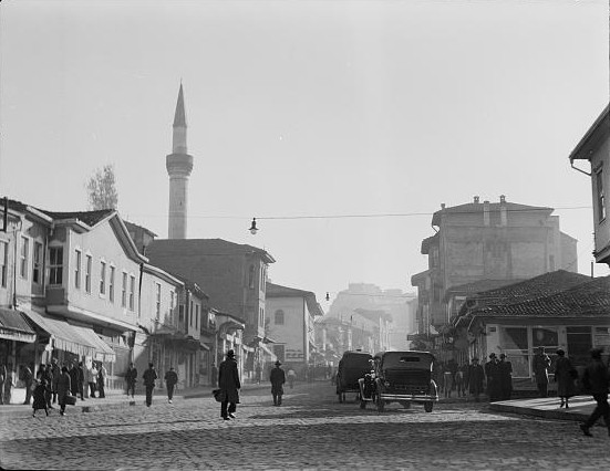 Turkey. Ankara. Street with castle in distance 1935